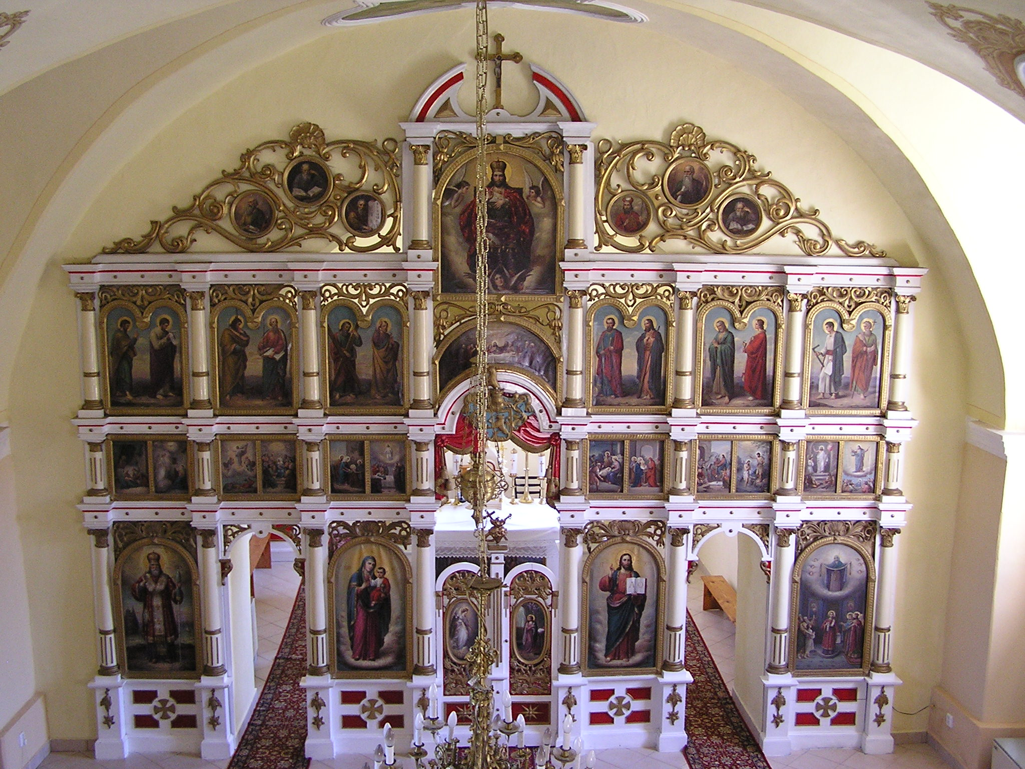 Slovakia, Presov county, Saris region, Klenov village, kirk, iconostasis